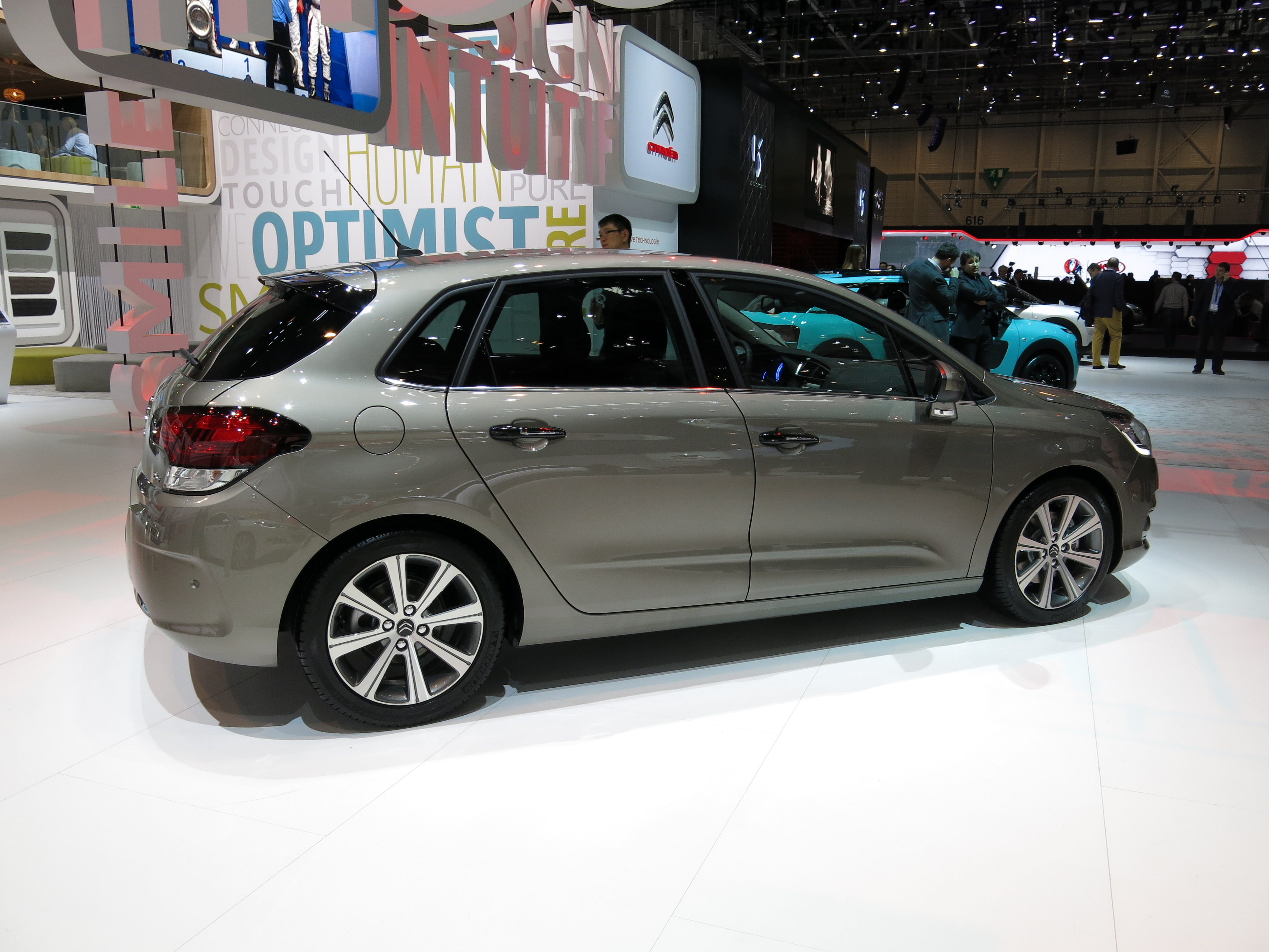 Geneva Motor Show 2015 (photo taken on the first press day)